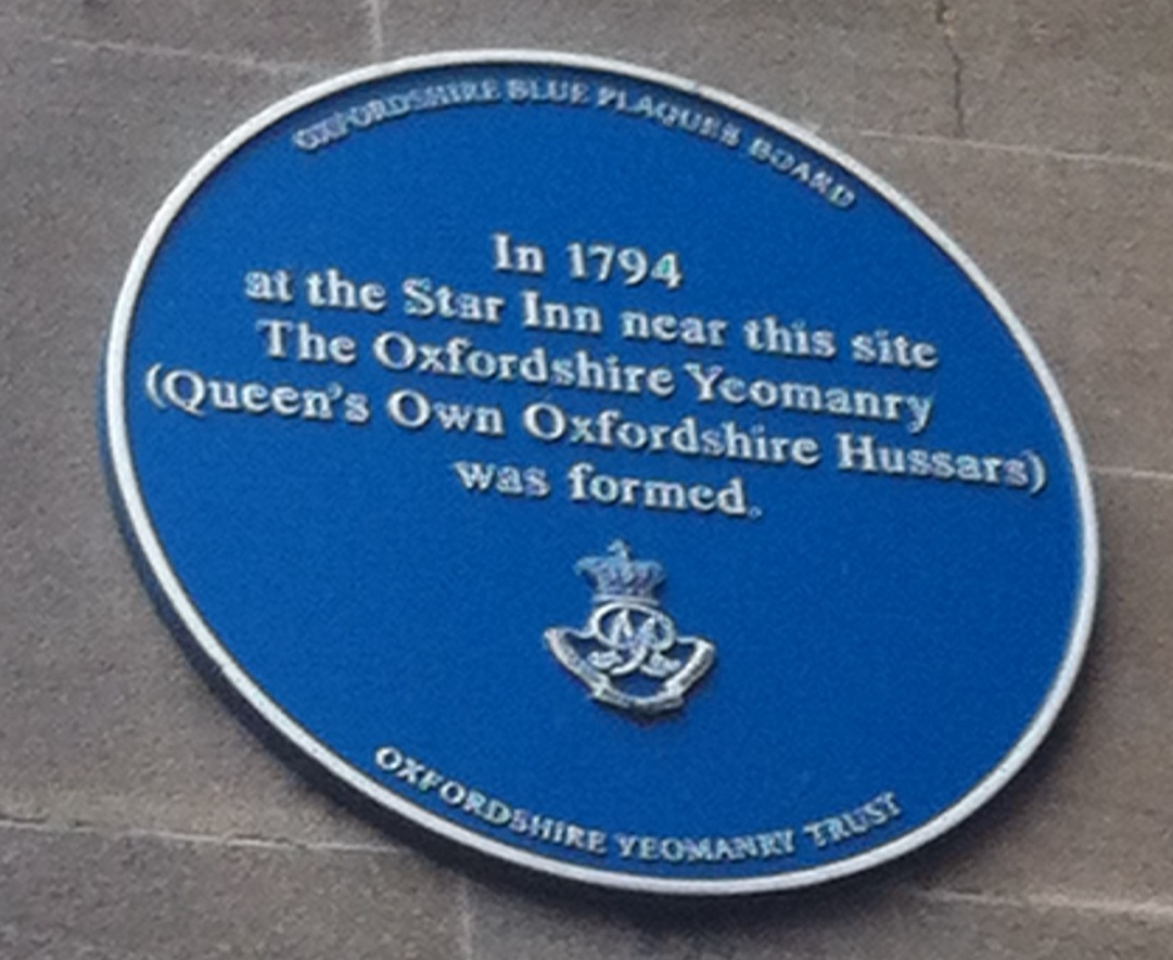 1Blue plaque on the Clarendon Centre, Cornmarket Street, Oxford, commemorating the foundation in 1794 of the Oxfordshire Yeomanry in the Star Inn that formerly stood on the site.